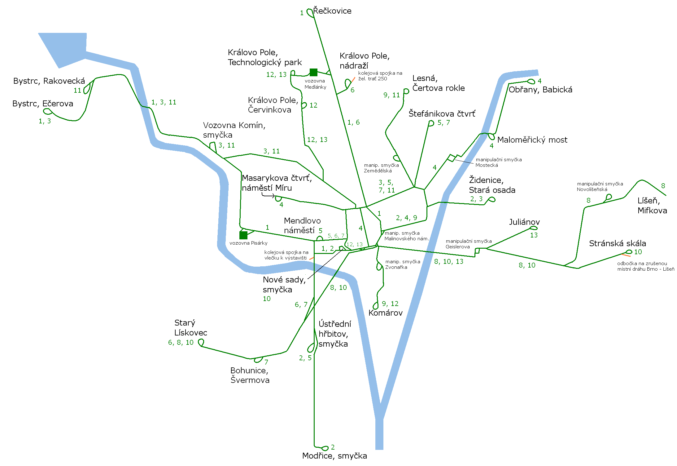 Tram network in Brno (situation on 29.08.2009)